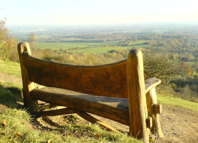 View from Pilgrims' Way near Trottiscliffe, Kent